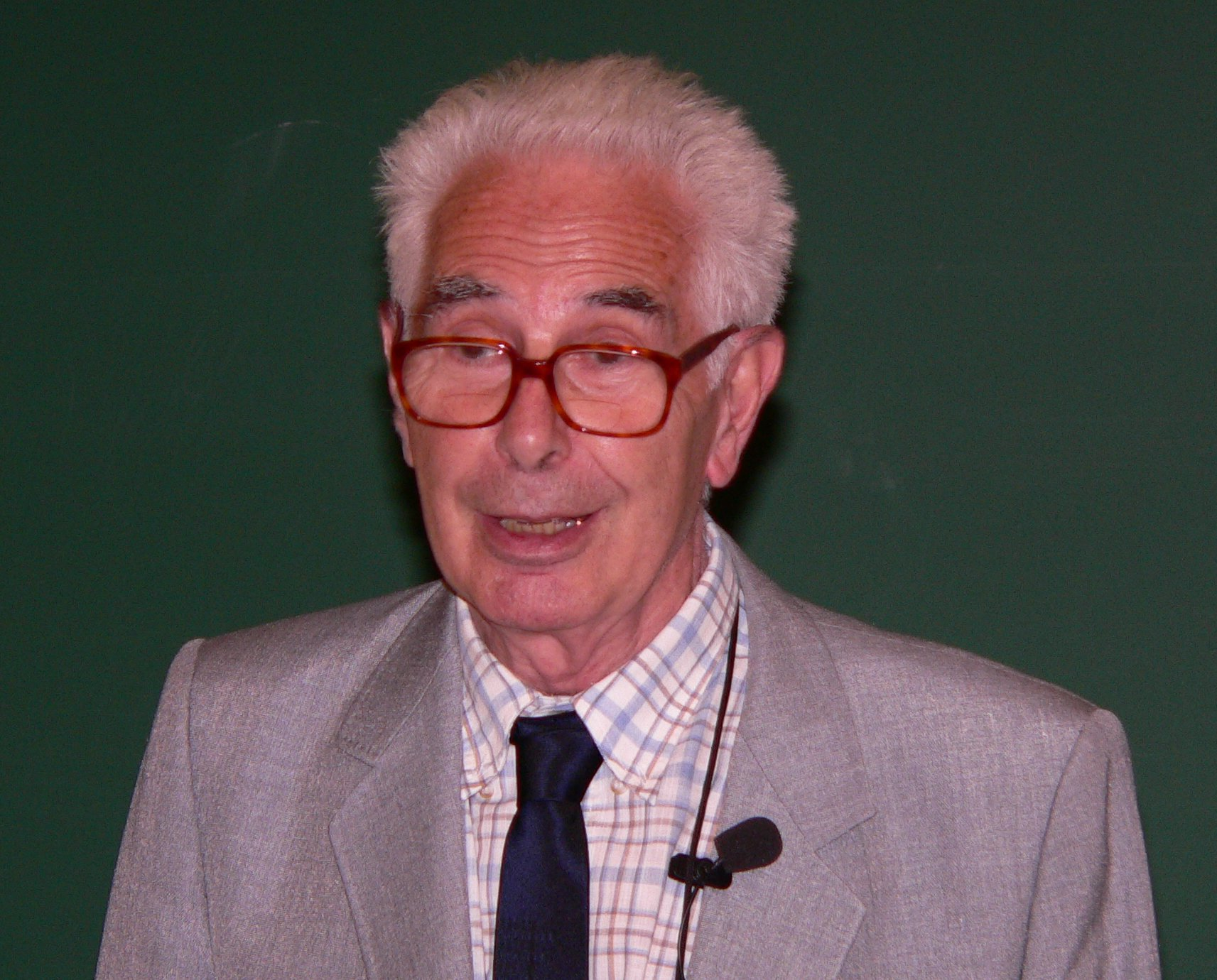 Jean-Pierre Kahane, French mathematician during his speech at the ceremony where Benoît Mandelbrot was made an officer of the Legion of Honour on September 11, 2006, at the École polytechnique; here, with a display of the Mandelbrot set